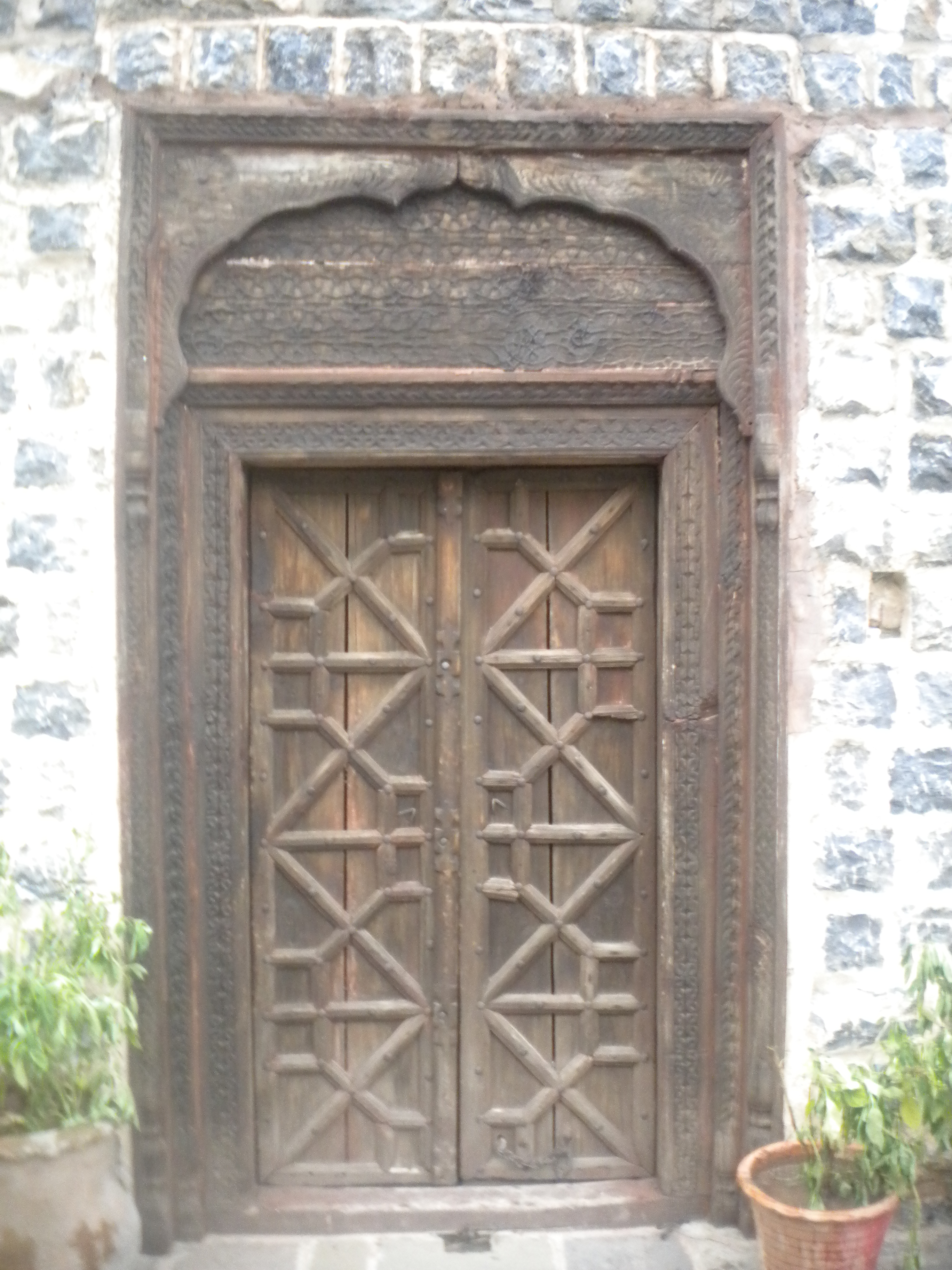 Door, Saidpur, Islamabad CT